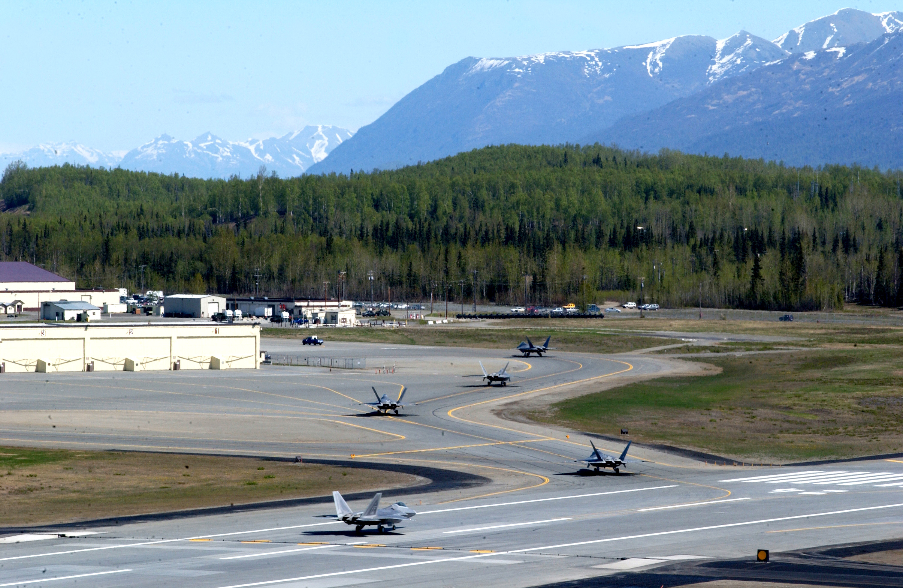 Five Air Force F-22 Raptors taxi after arrival at Elmendorf Air Force Base, Alaska, on Tuesday May 23, 2006. Raptors from the 27th Fighter Squadron at Langley AFB, Va., are supporting Exercise Northern Edge 2006. The Air Force has selected Elmendorf as the home for the next operational F-22 squadron. The base will receive 36 Raptors, with the first jet expected in fall 2007